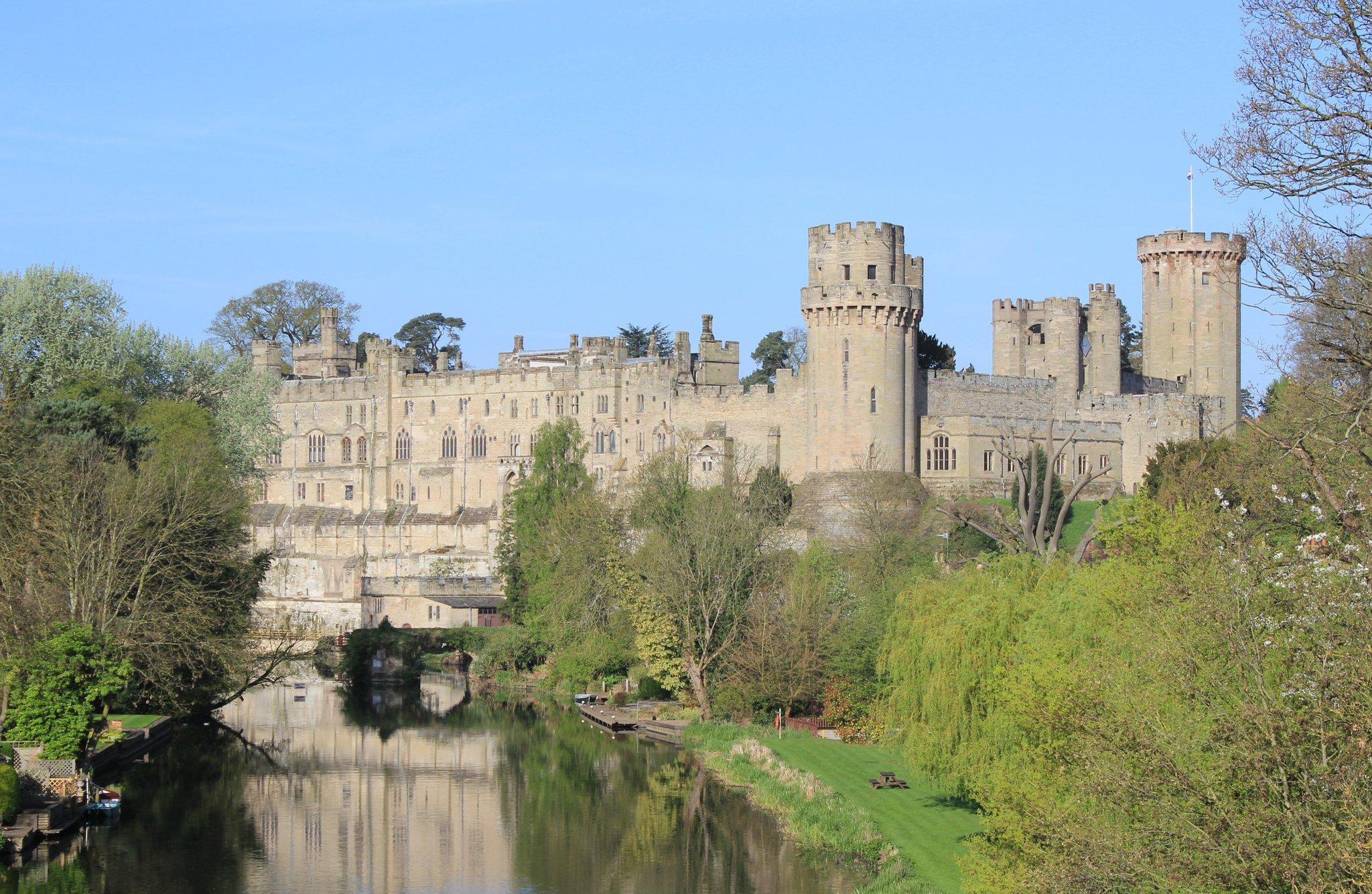 Warwick Castle Westside